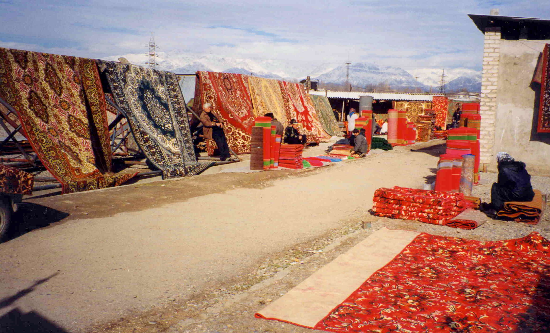 Why don't you come with me little girl On a Magic Carpet ride You don't know what we can see Why don't you tell your dreams to me [ Steppenwolf ]